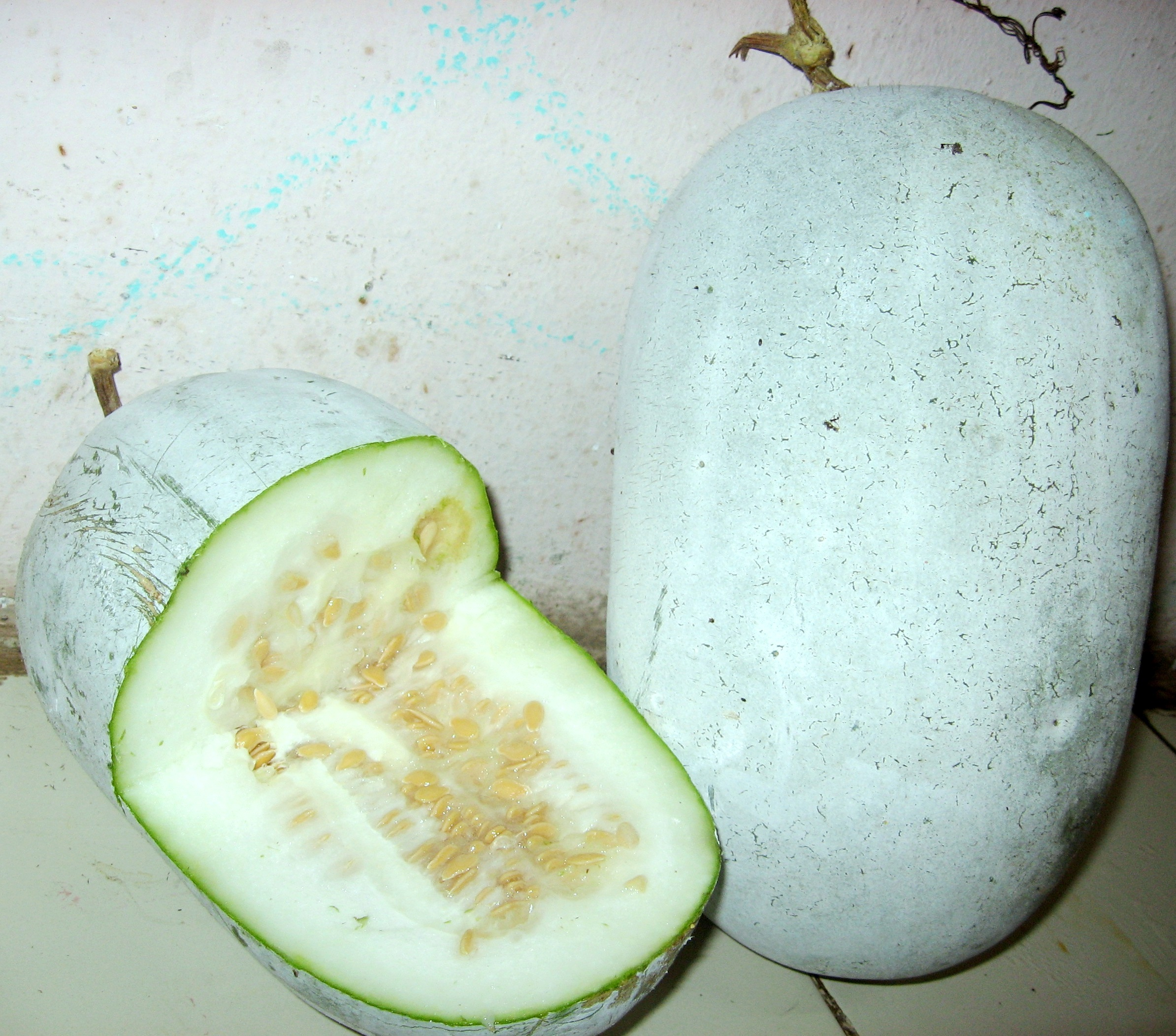 Vegetable